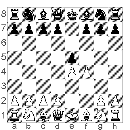 chess diagram King's gambit Source: CBlight + my processing